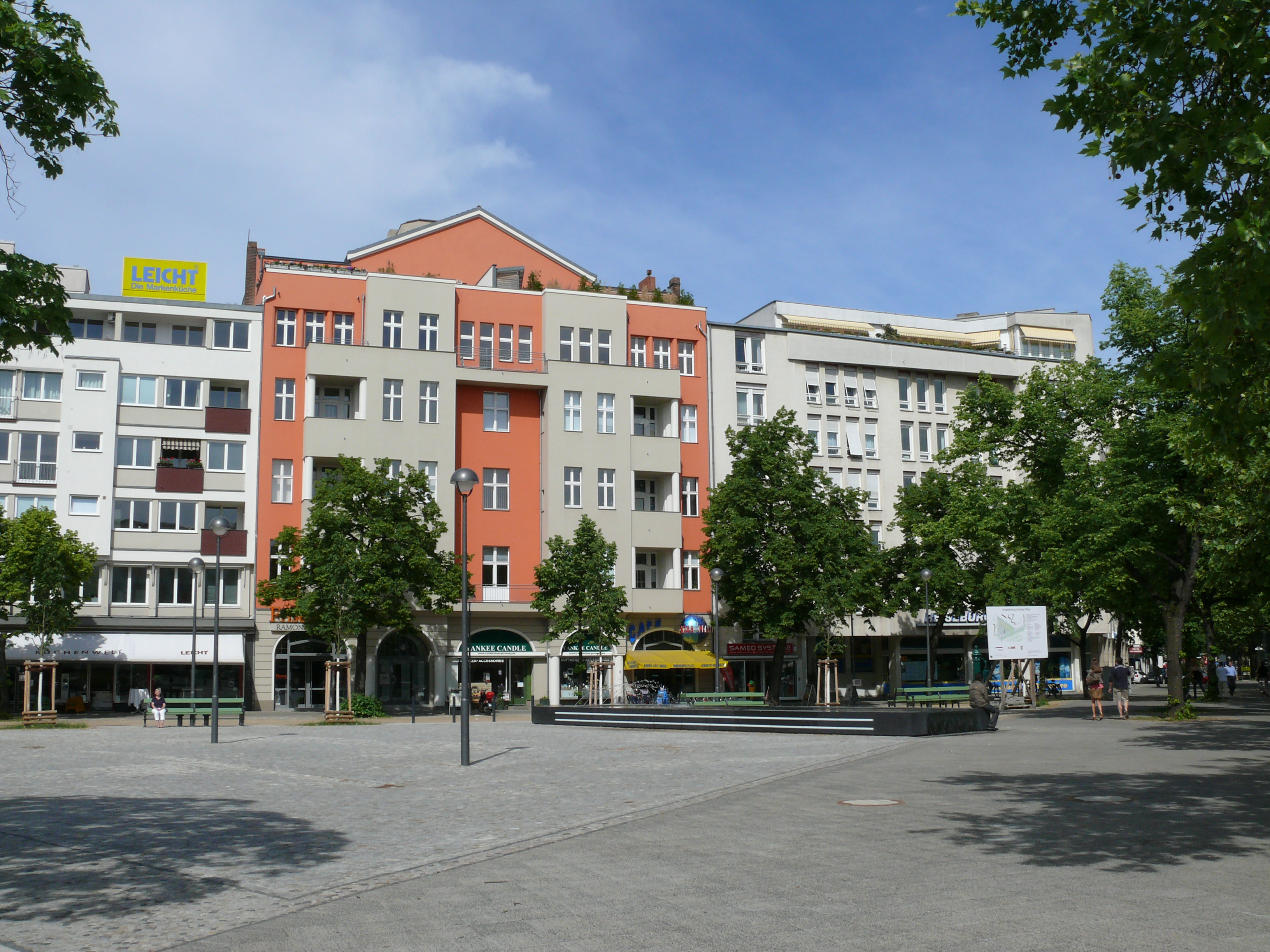 Berlin-Charlottenburg Lehniner Platz